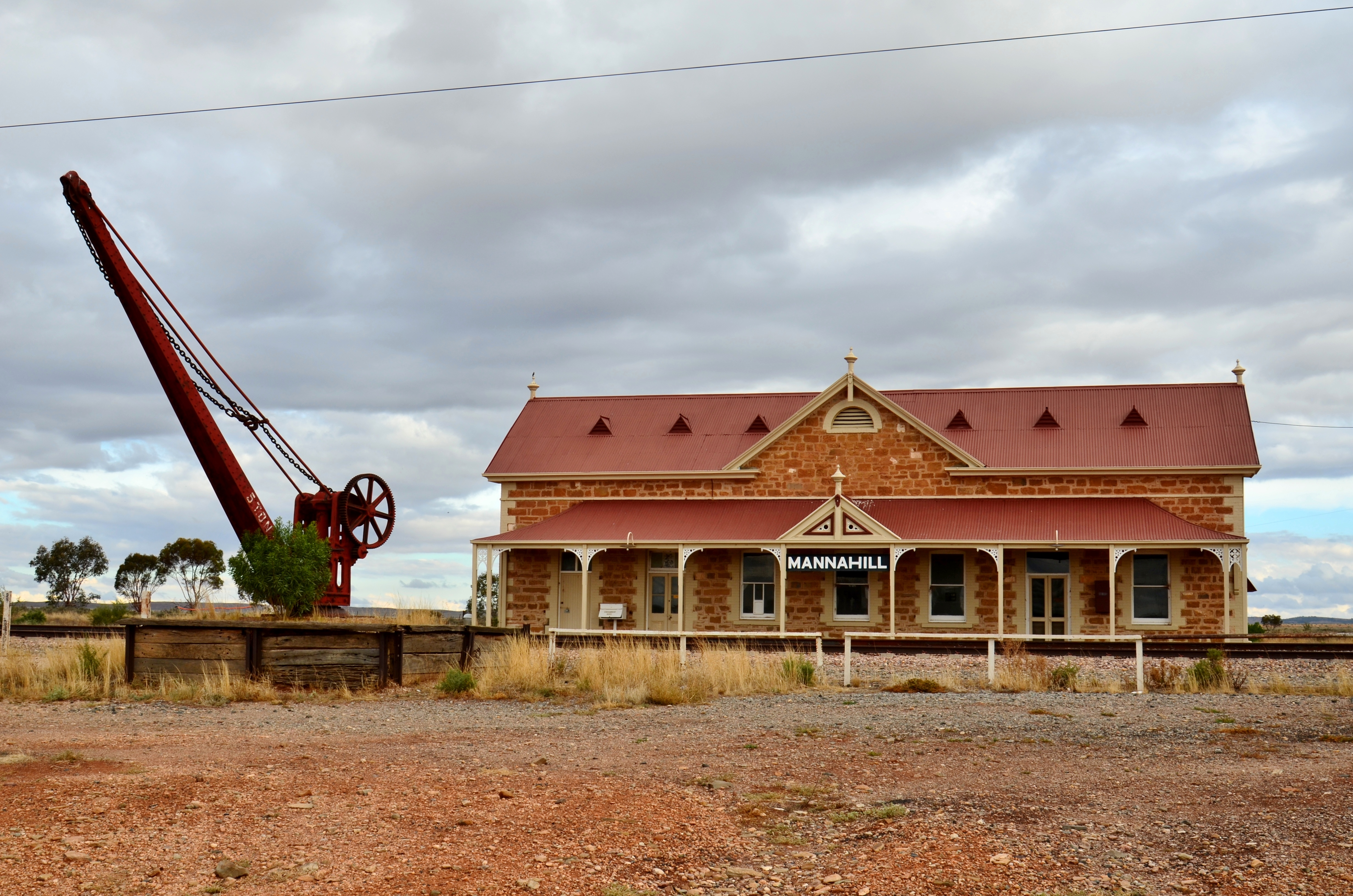 View of the heritage listed crane and railway station building at Mannahill, South Australia